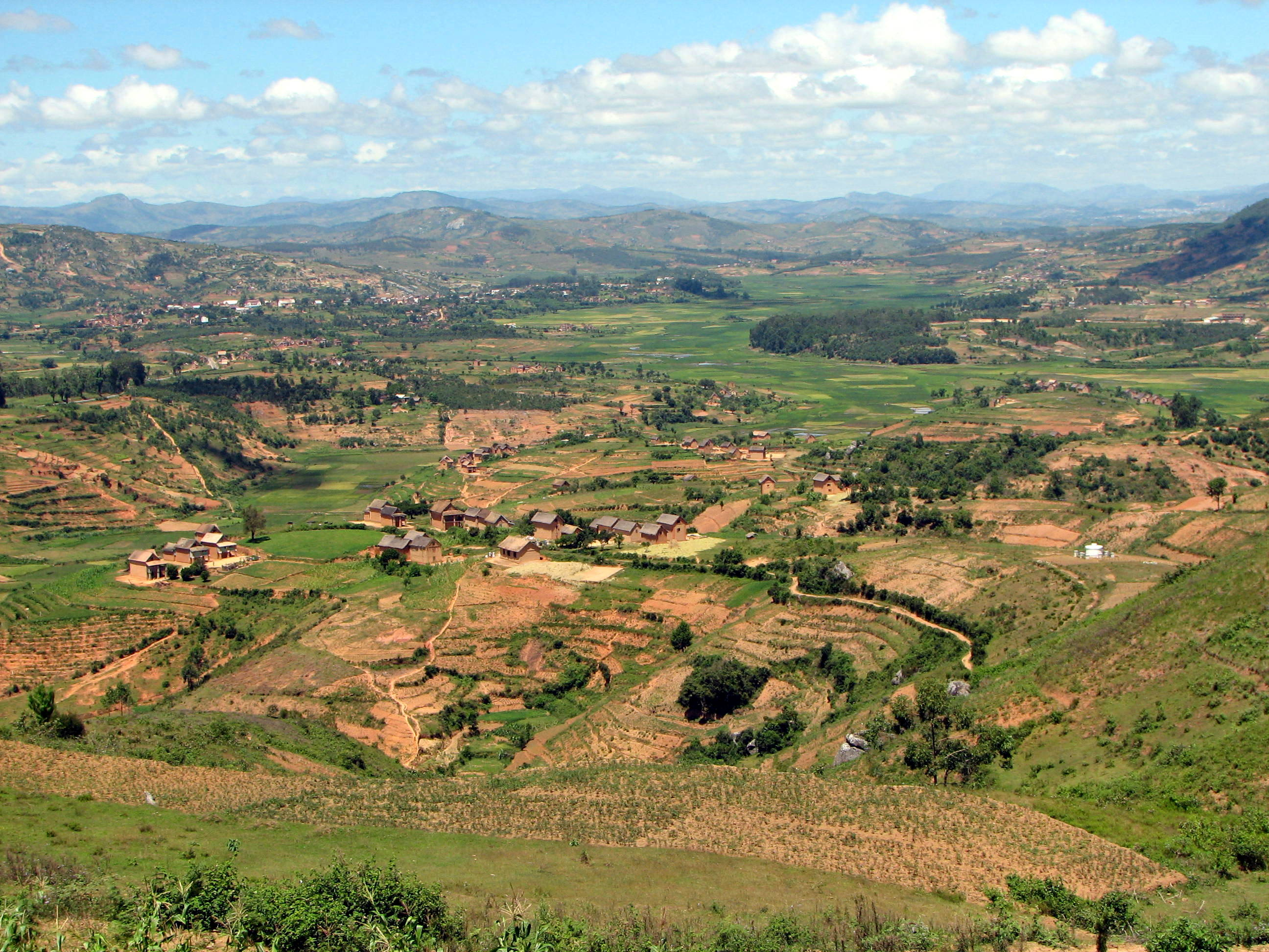 Landscape near Fianarantsoa, Madagascar